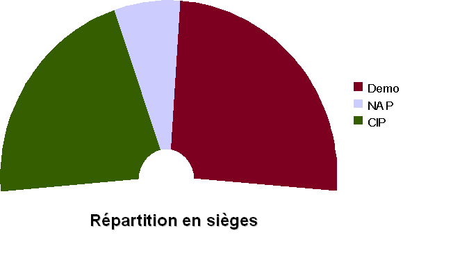 2006 Cook Islands General elections